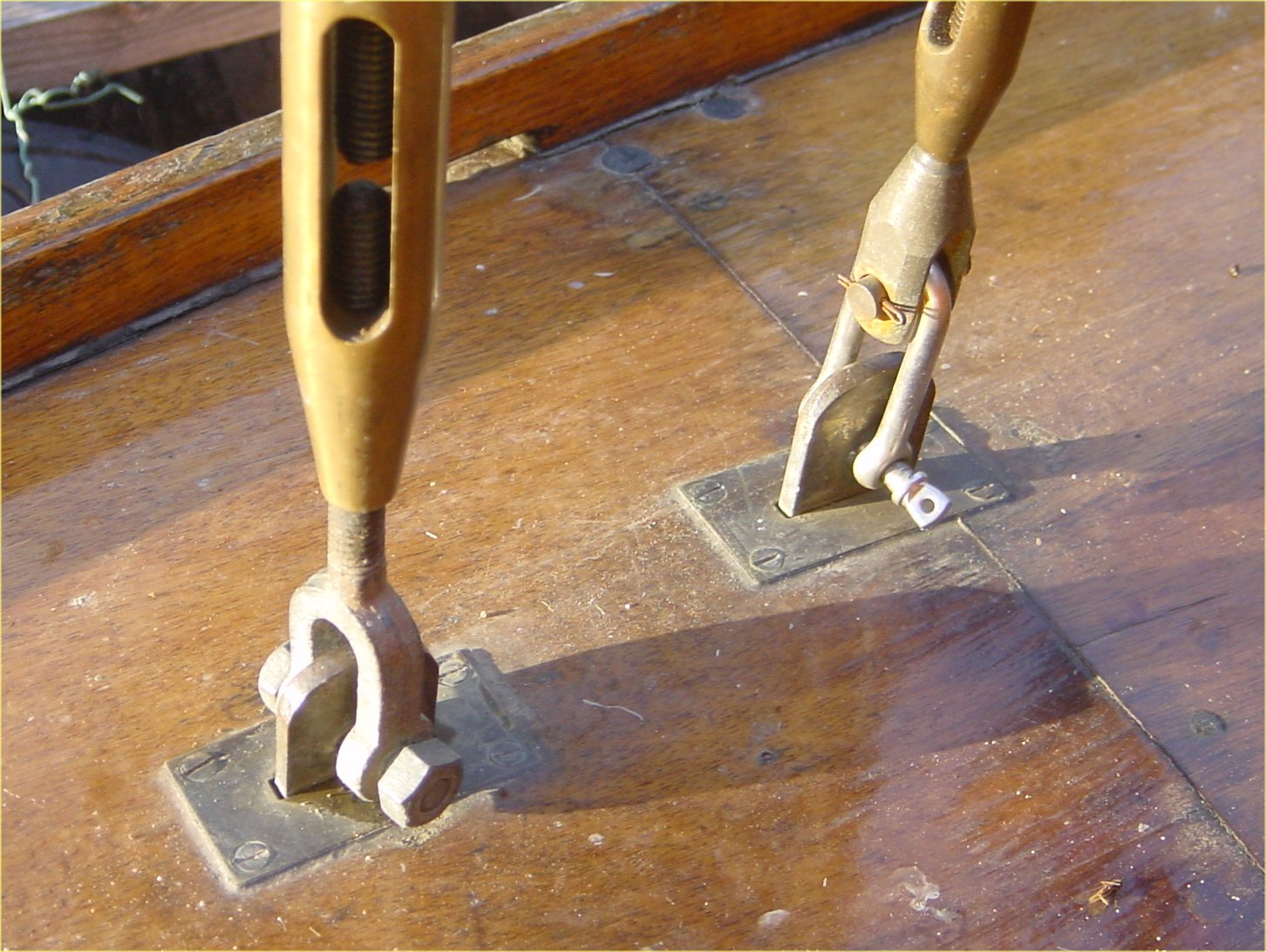 Two Chainplates with turnbuckles (stay-spanners) attached to the deck (on an old wooden sailboat)